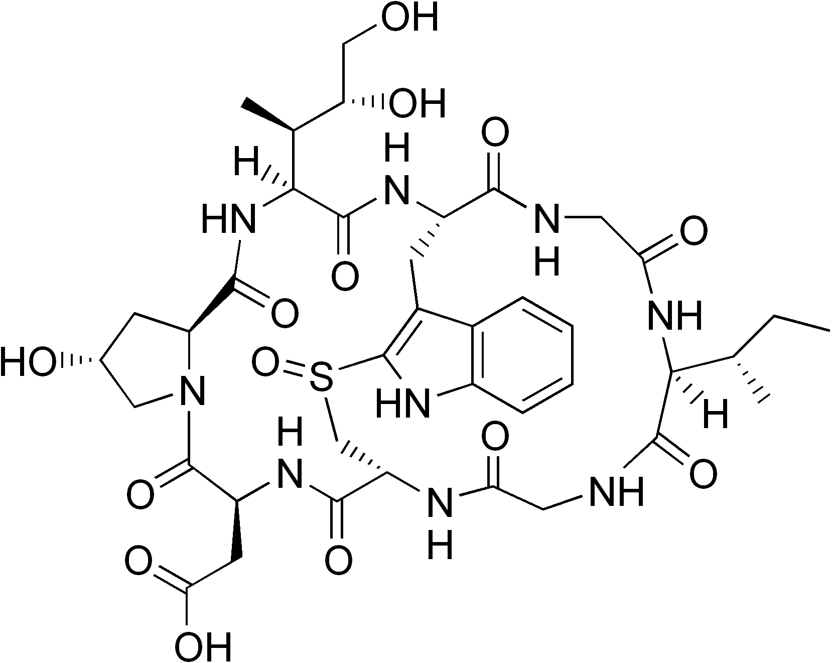 chemical structure of the amatoxin aminin